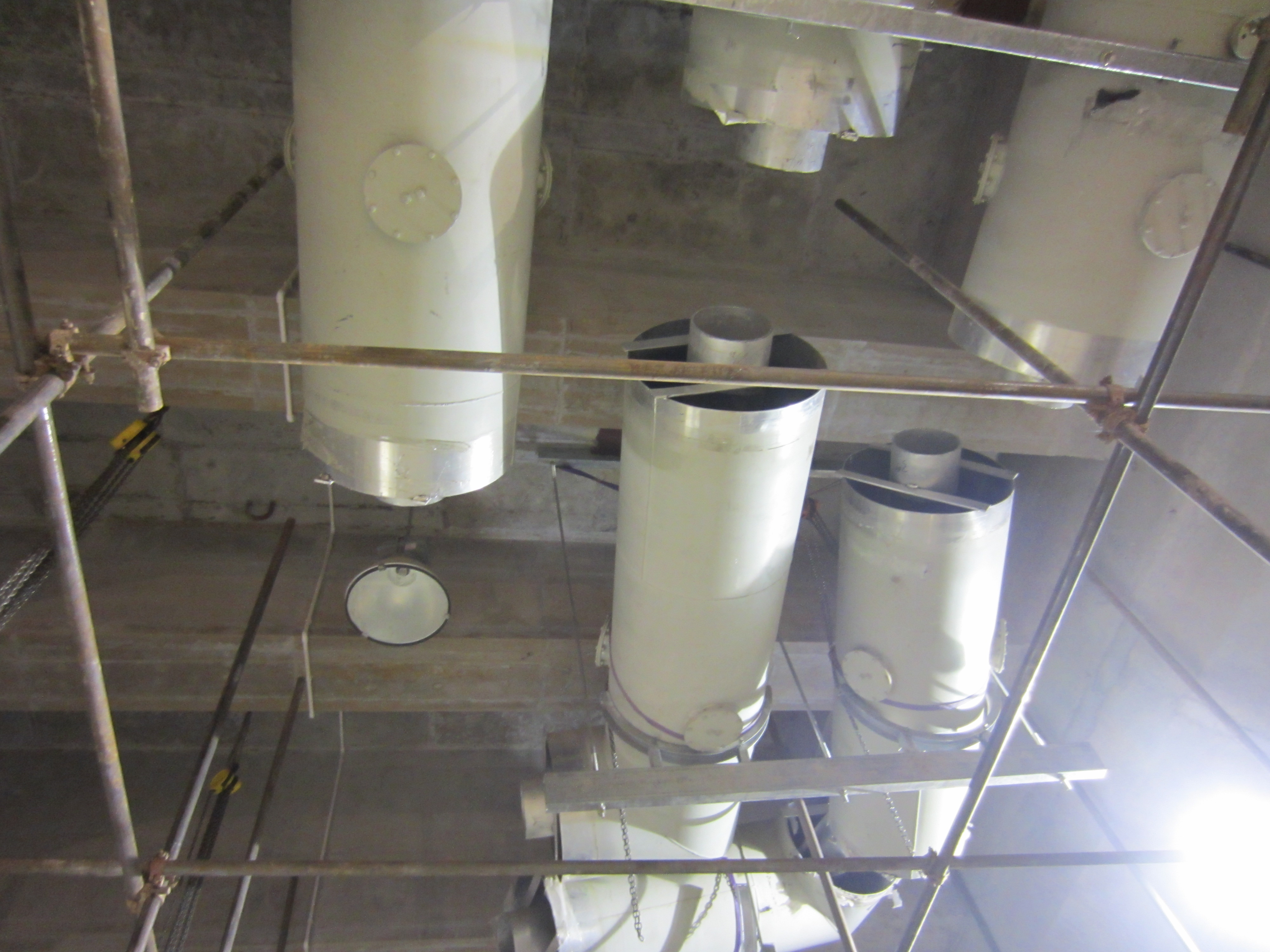 Isolated phase bus during installation at the Bui hydroelectric dam, Ghana. Segments of bus are temporarily supported by scaffolding. The interior aluminum conductors are temporarily braced for installation. The inner conductors and outer enclosure will be welded to form a unit. Inside the enclosure, the inner conductor is supported by polymer insulators; hatches for access to the insulators are visible on each segment. Each phase is separated. This bus will carry over 6000 amperes at full load; similar busses can be rated for tens of thousands of amperes.